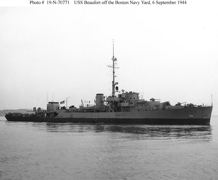 Off the Boston Navy Yard, Massachusetts, 6 September 1944.